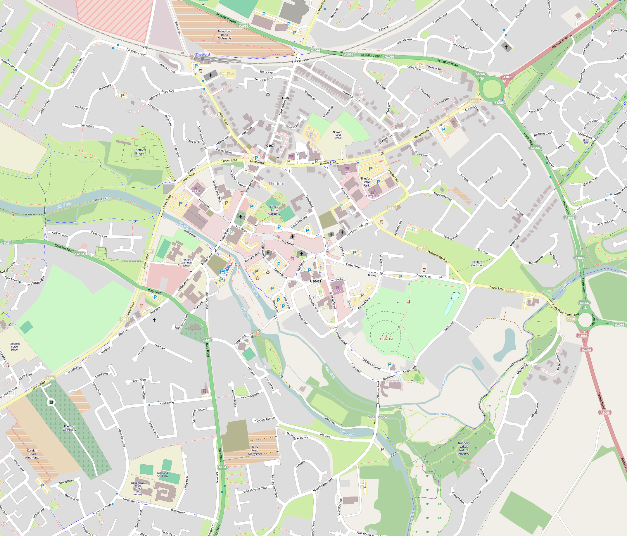 Map of Thetford Geographic limits: N: 52.4208° S: 52.40561° W: 0.73587° E: 0.76501°